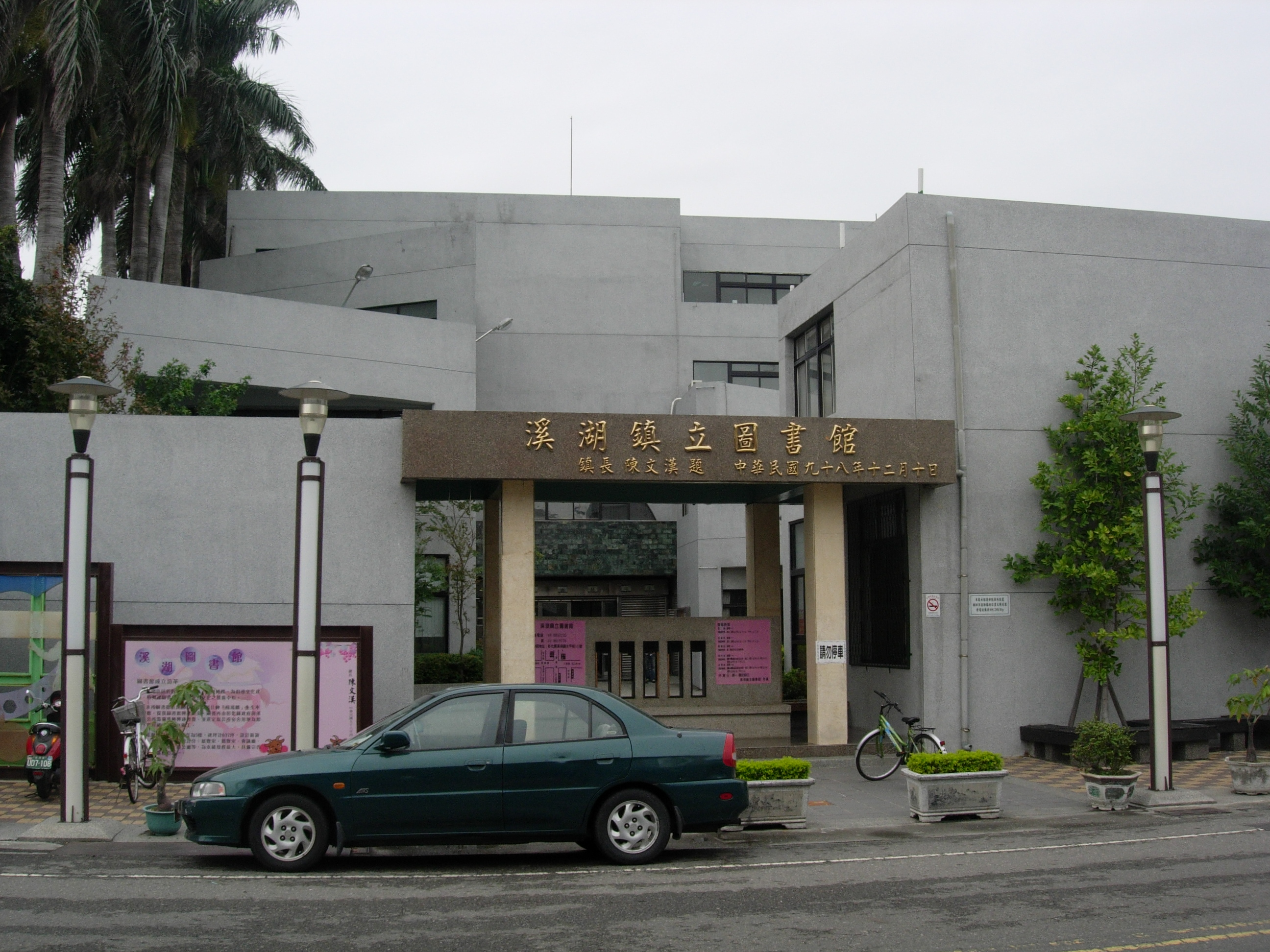 Xihu Township Library, Changhua County, Taiwan中文（台灣）: 彰化縣溪湖鎮立圖書館。